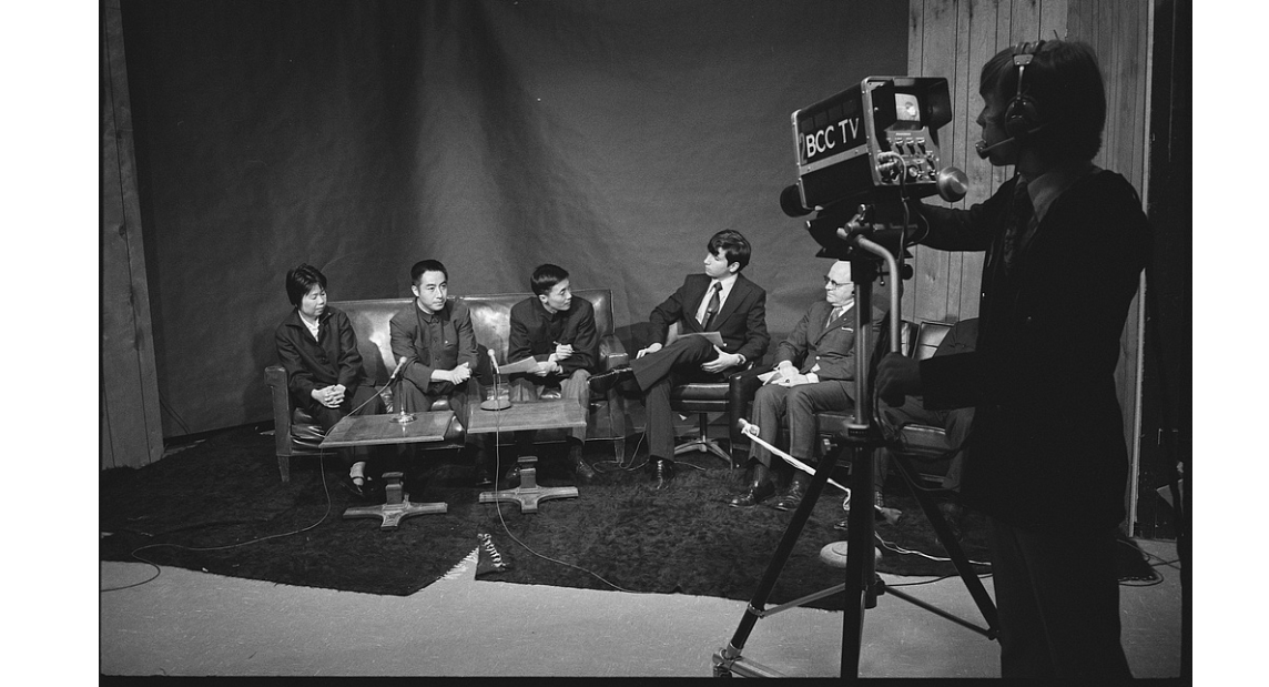 Members of a Chinese table tennis team being interviewed at a television studio at Bethesda-Chevy Chase High School, Bethesda, Maryland